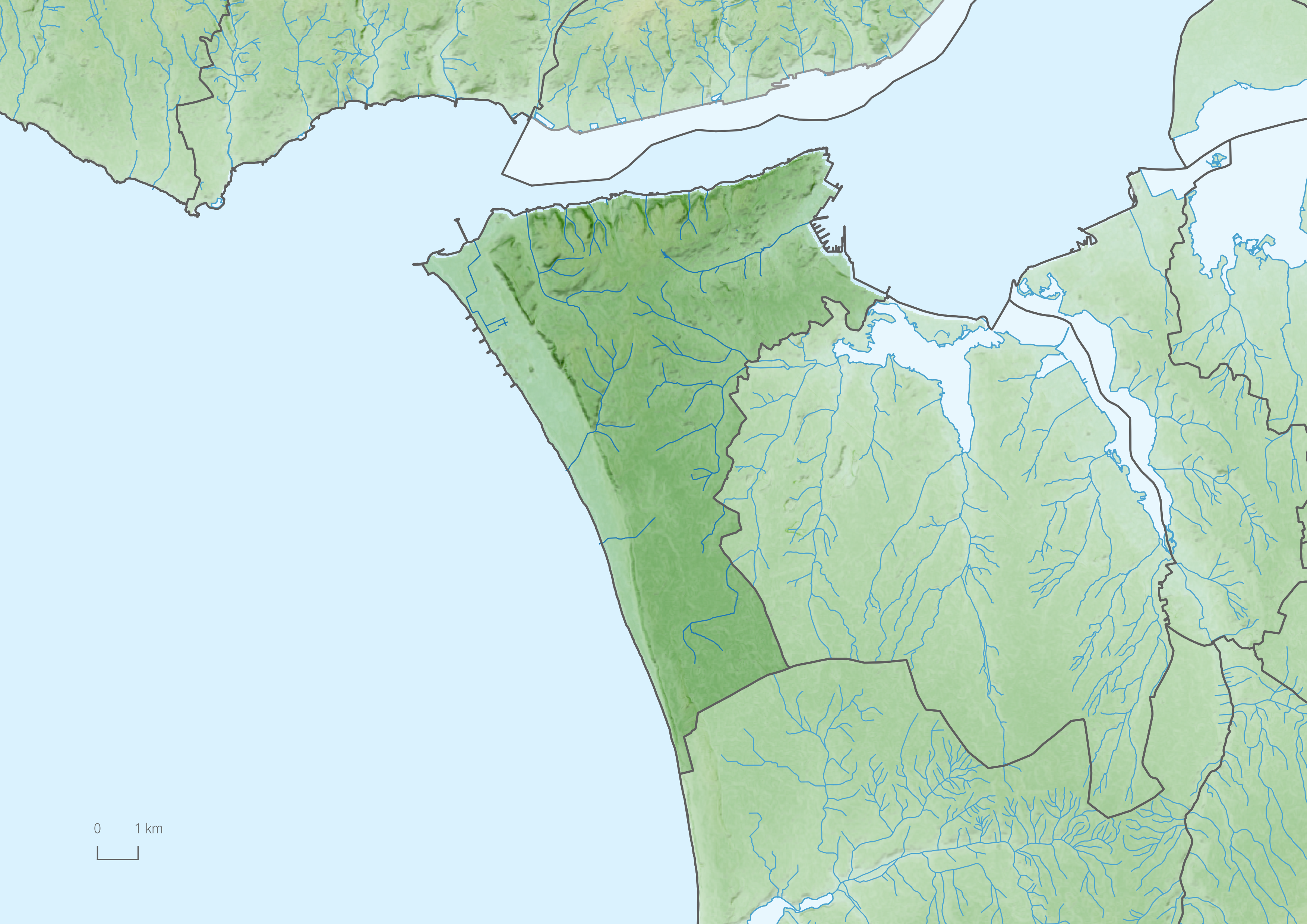 Relief map of Almada, Portugal, complete with administrative boundaries, as well as streams and rivers.